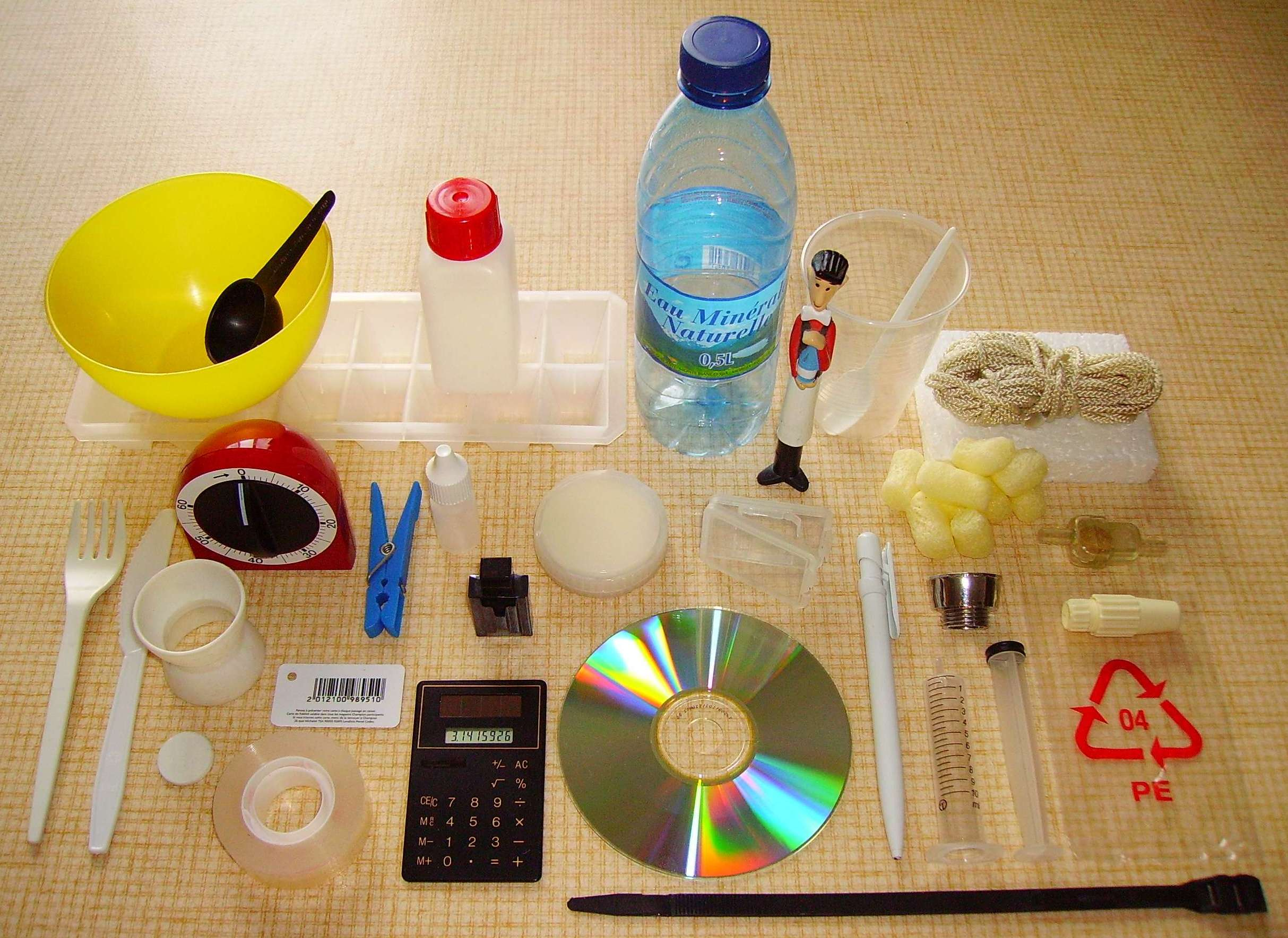 Some usual objects made of various kinds of plastic.